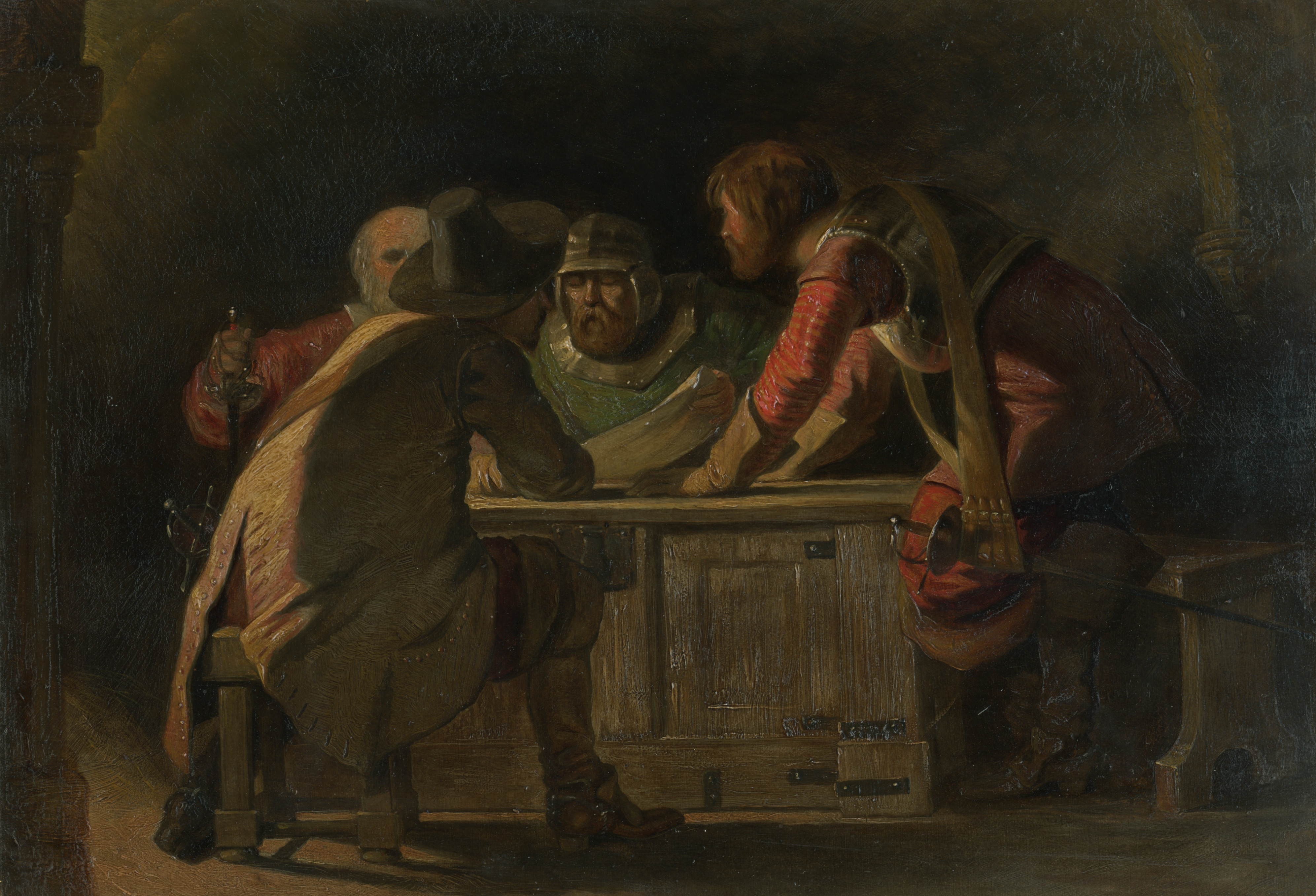 John Tenniel, A Conspiracy, oil on panel, August 1850 (Private Collection, UK)